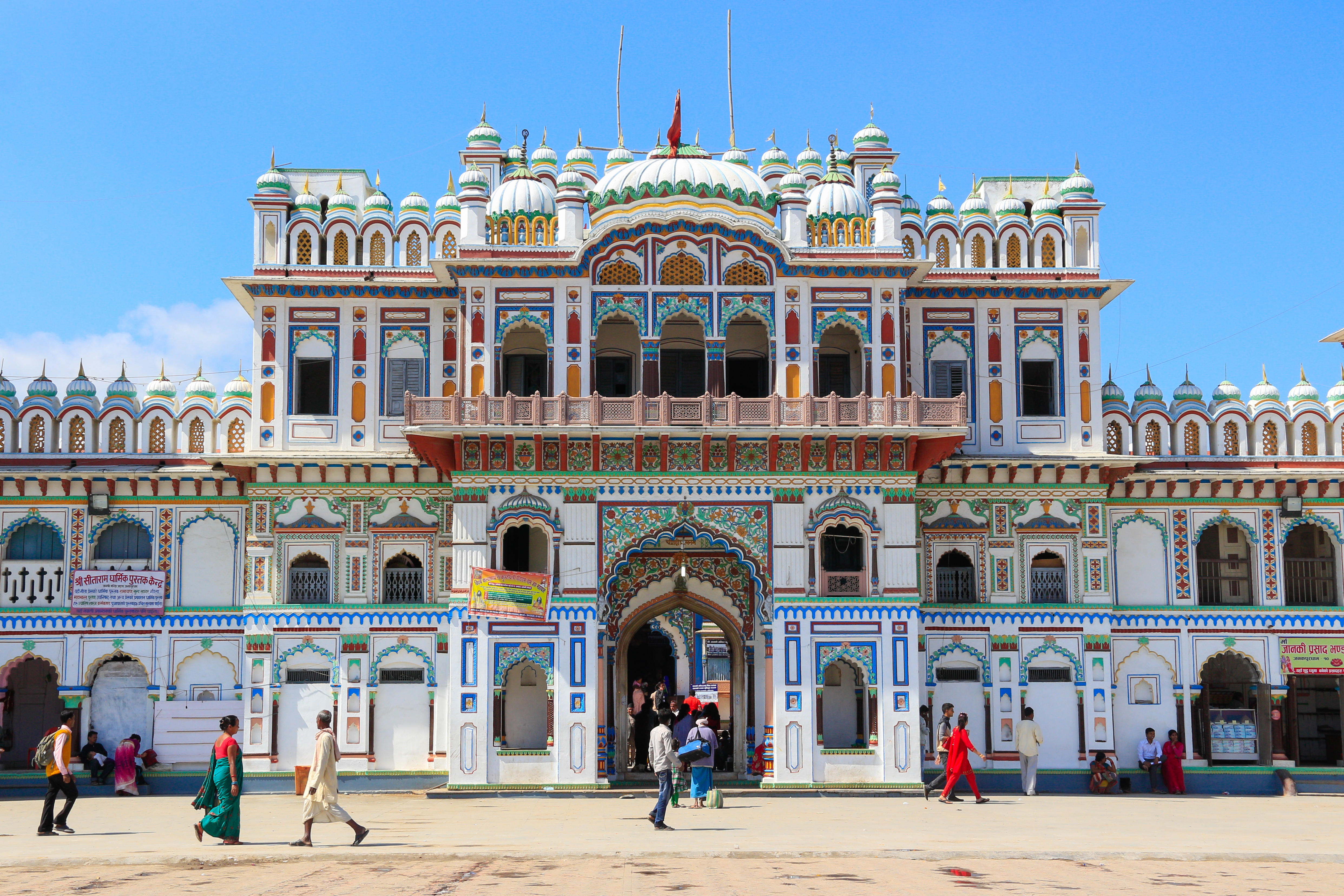 The temple is popularly known as the Nau Lakha Mandir (meaning Nine Lakhs). The cost for the construction of the temple was about the same amount of money: Rupees Nine Lakhs or Nine Hundred Thousands and hence the name. Queen Vrisha Bhanu – of Tikamgarh, India built the temple in 1910 AD. In 1657, a golden statue of the Goddess Sita was found at the very spot, and Sita is said to have lived there.